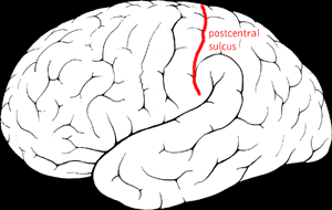 Postcentral sulcus of the human brain. Diagram by User:jimhutchins.